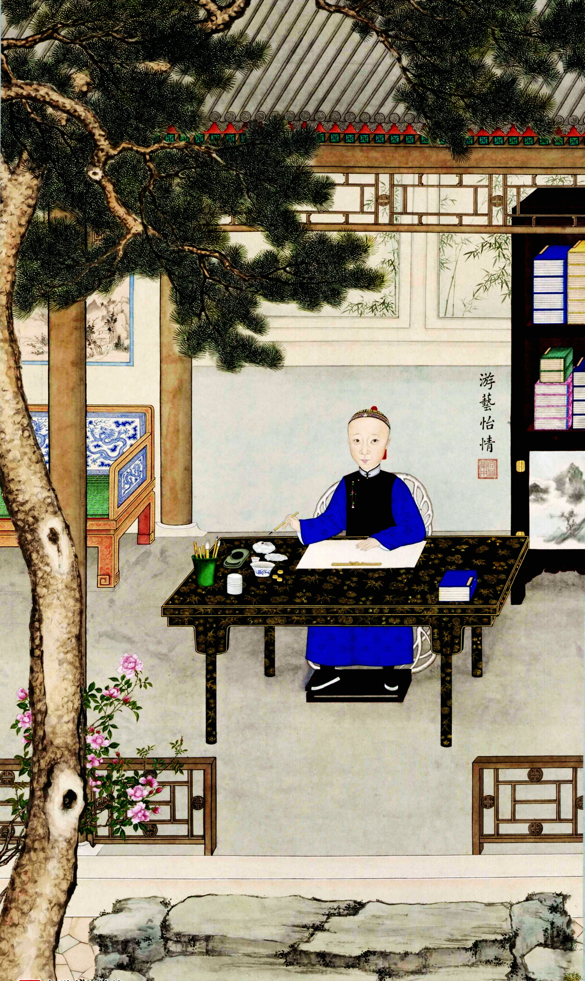 同治帝肖像